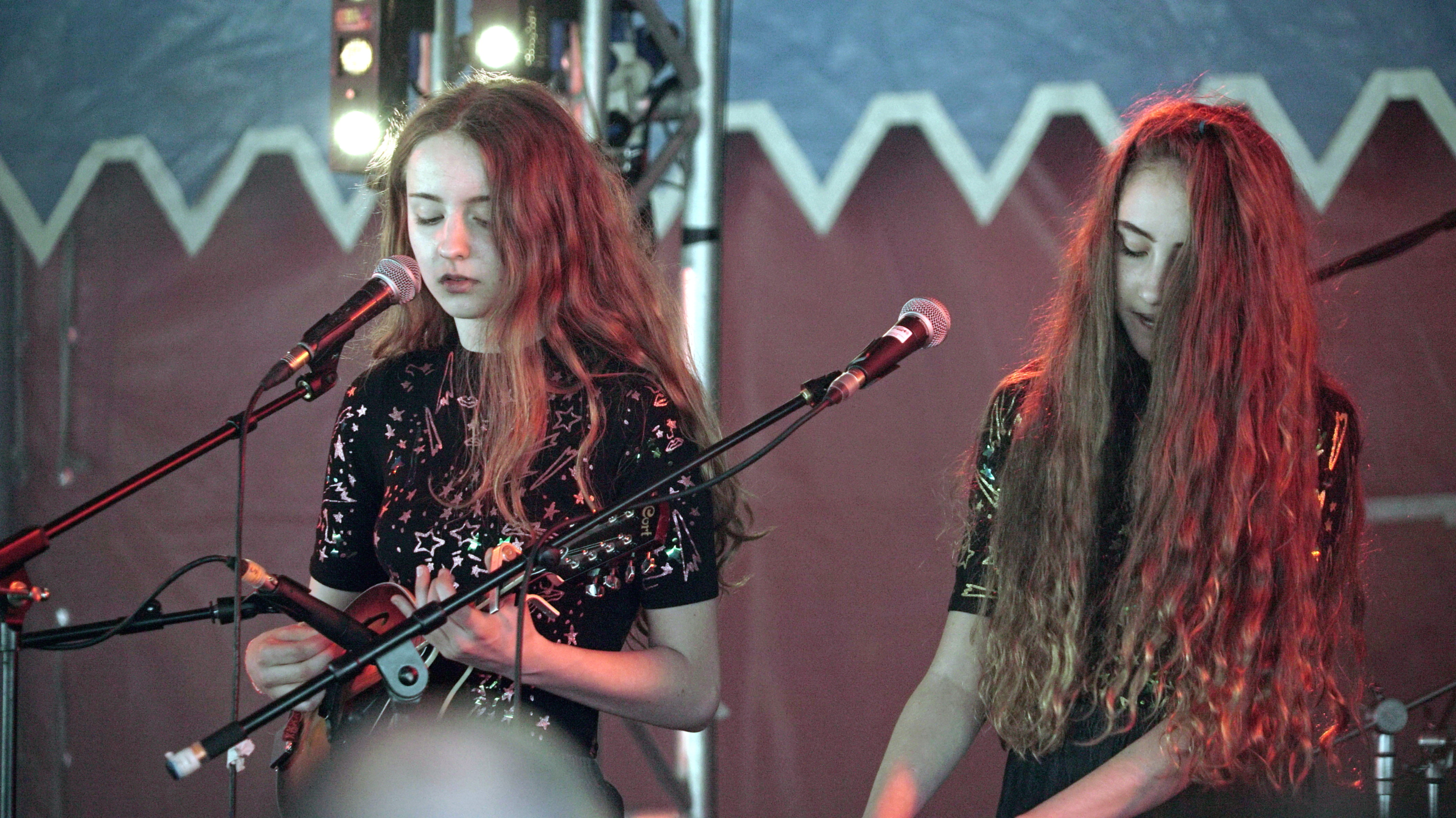 Let's Eat Grandma at Field Day, Saturday 11 June, 2016